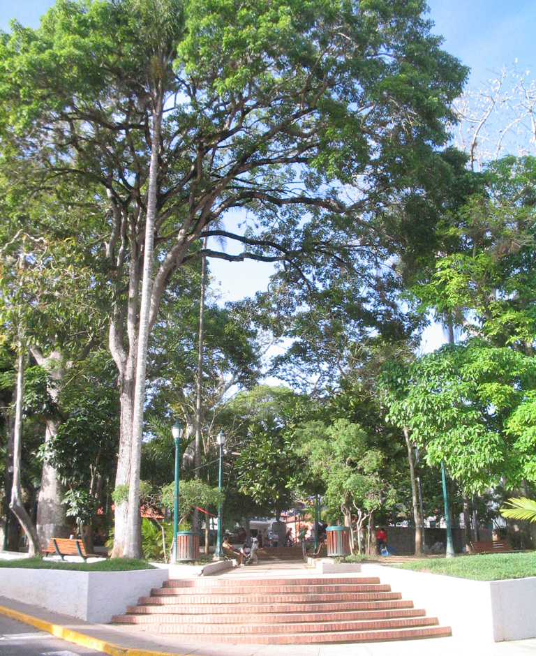 Stairs in Bolívar Square, at El Hatillo Municipality. Photographed by User:Enano275, released to the public domain. Stairs in Bolívar Square, at El Hatillo Municipality. Photographed by User:Enano275, released to the public domain.